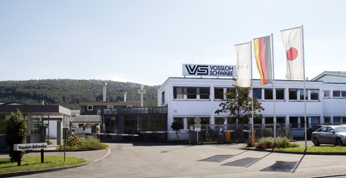 Vossloh-Schwabe Deutschland GmbH Headquarters in Urbach, Germany